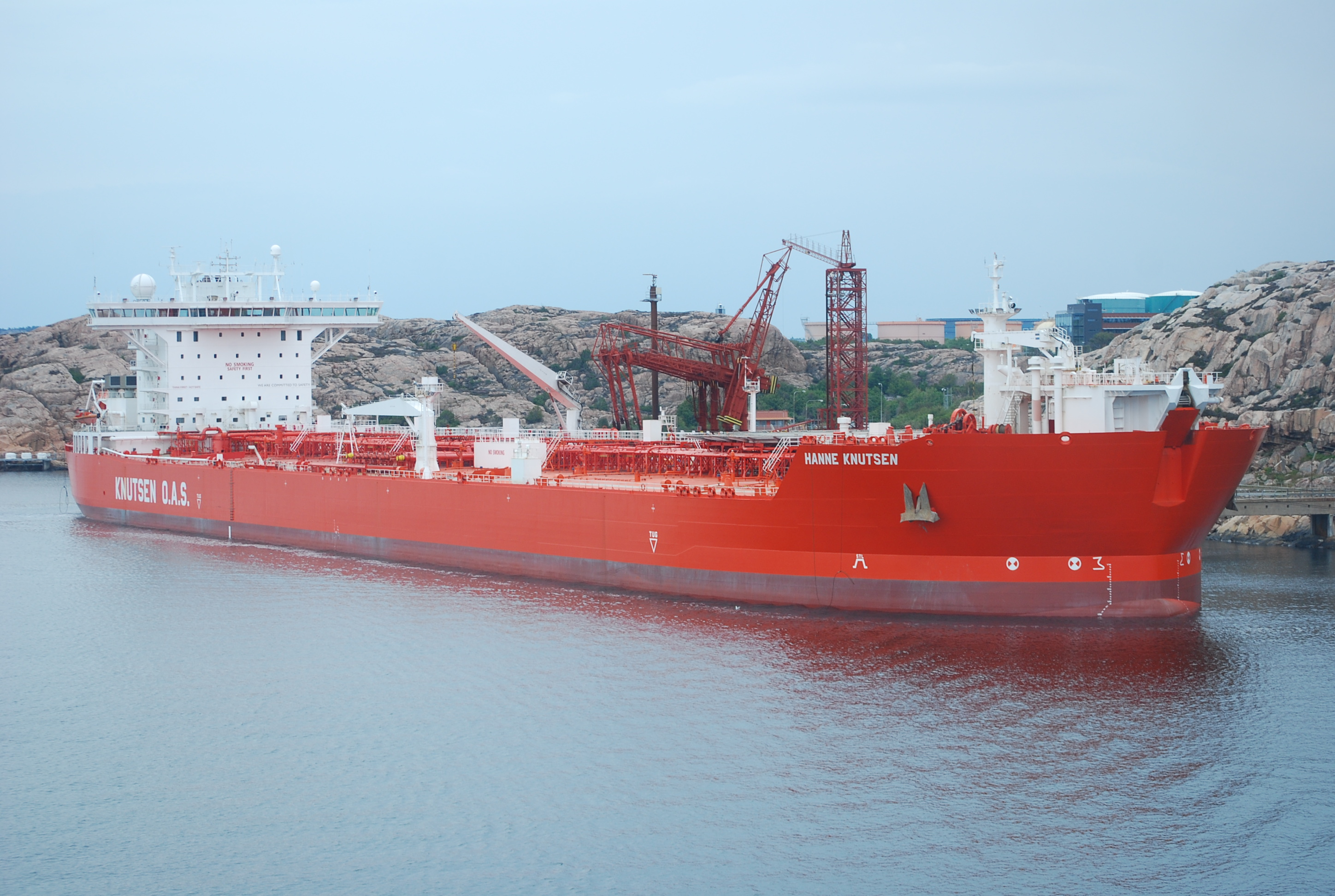 Oil tanker Hanne Knutsen discharging crude oil in Brofjorden, Sweden.